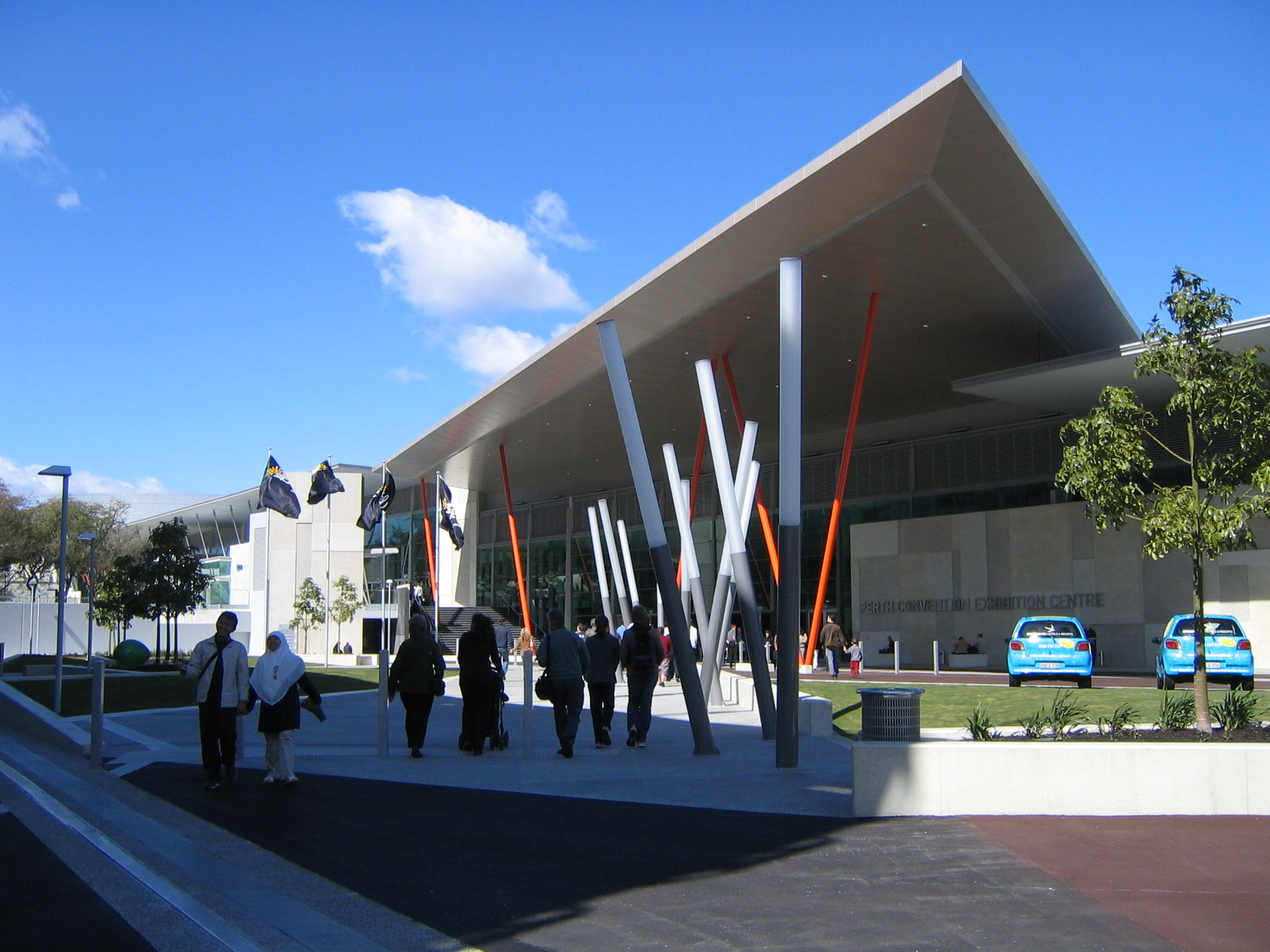 Perth Convention Exhibition Centre, Western Australia.